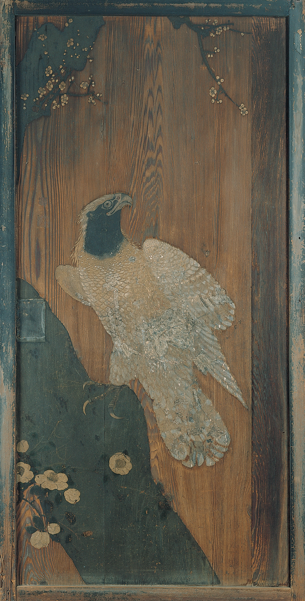 Sliding Door Panel with Design of Imperial Eagle, Plum Tree, and Camellia, 1st half of 17th century, Japan, Momoyama period, Cryptomeria wood, gesso with pigments, Kimbell Art Museum